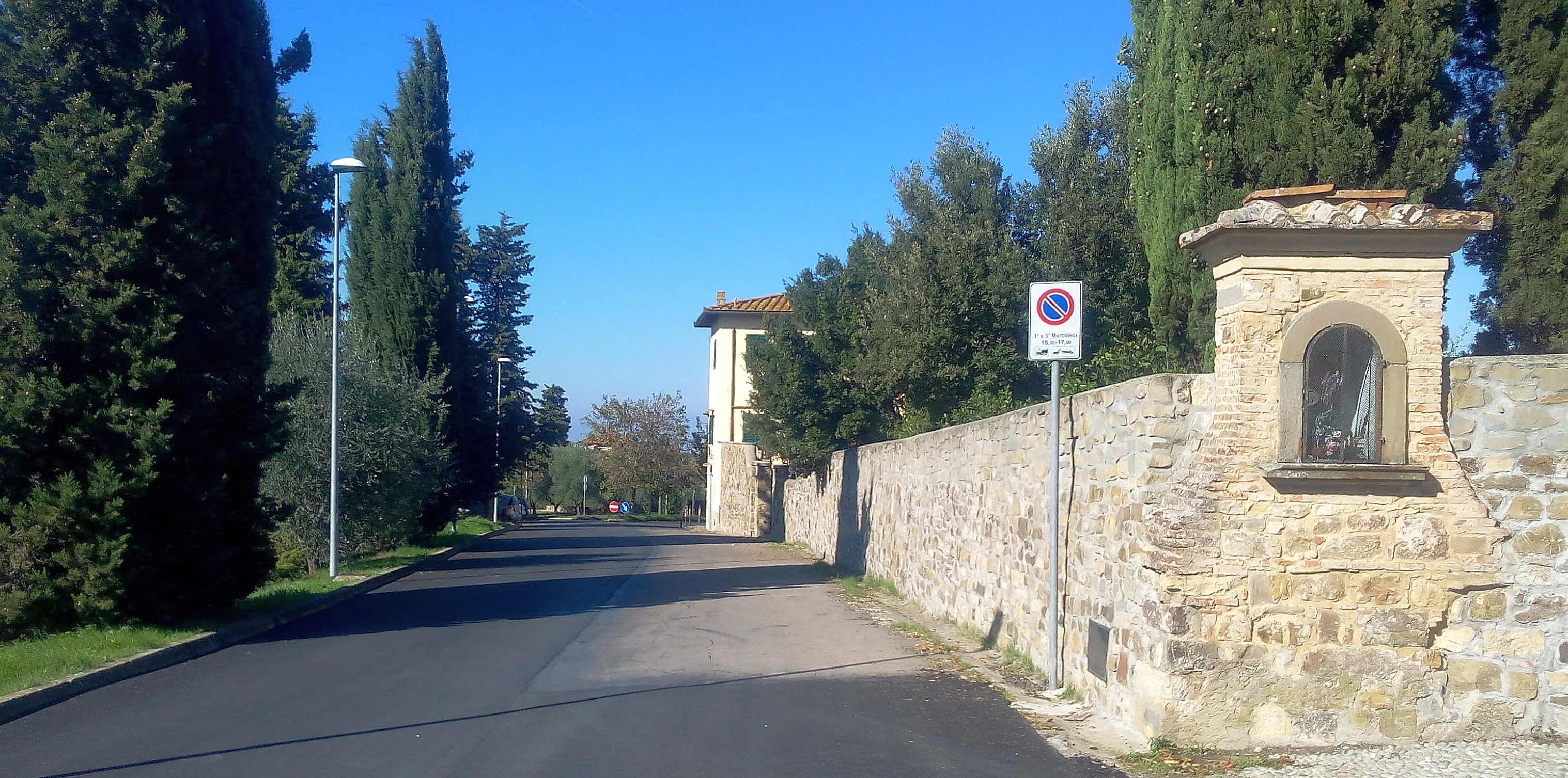 Baruffi (Impruneta, FI, Italy)